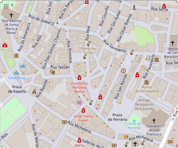 Geographic limits of the map: N: 42.43412° S: 42.43066° W: -8.64792° E: -8.64227°